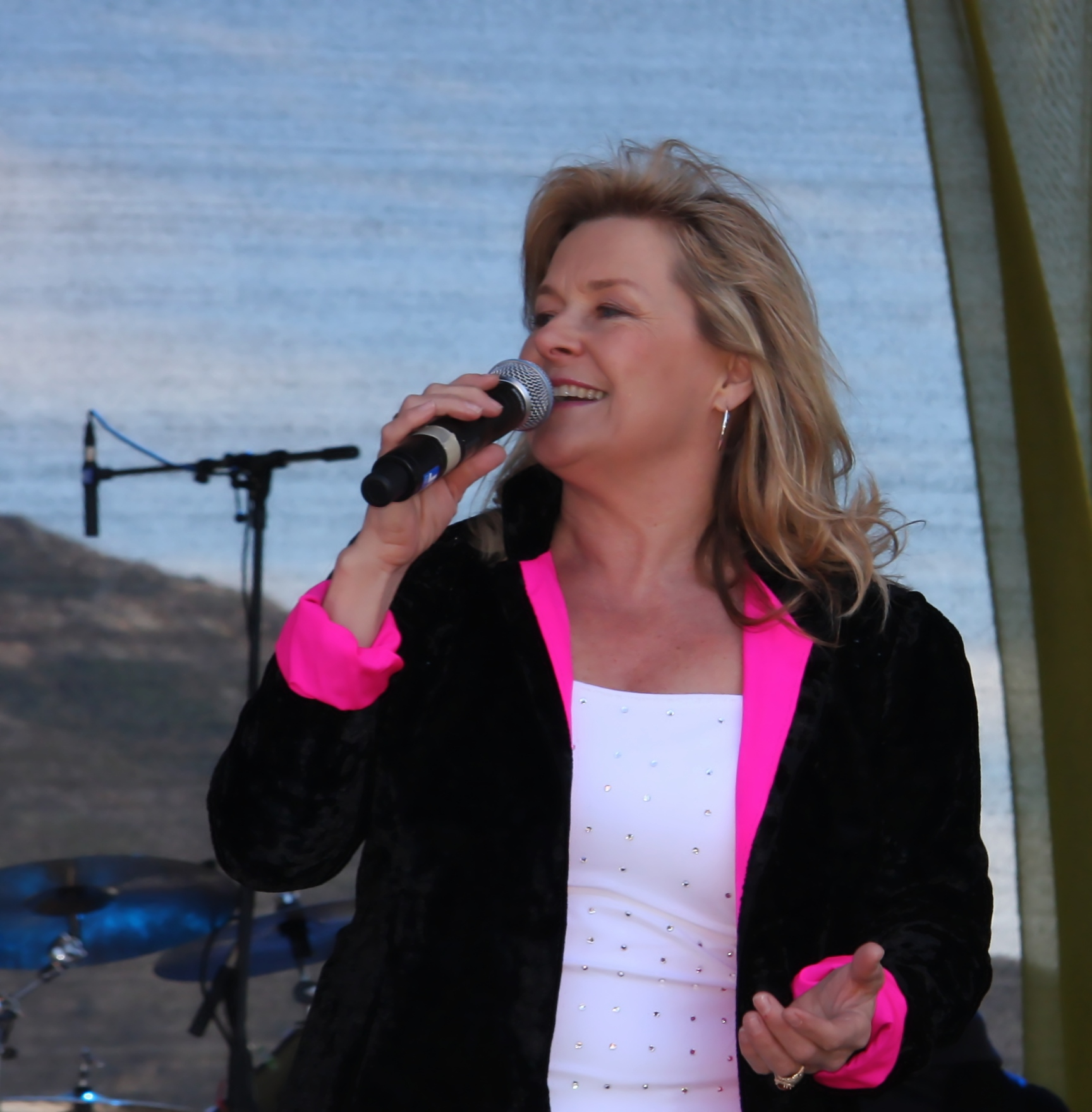 Elisabeth Andreassen at the outdor scene "Festplassen" in Bergen